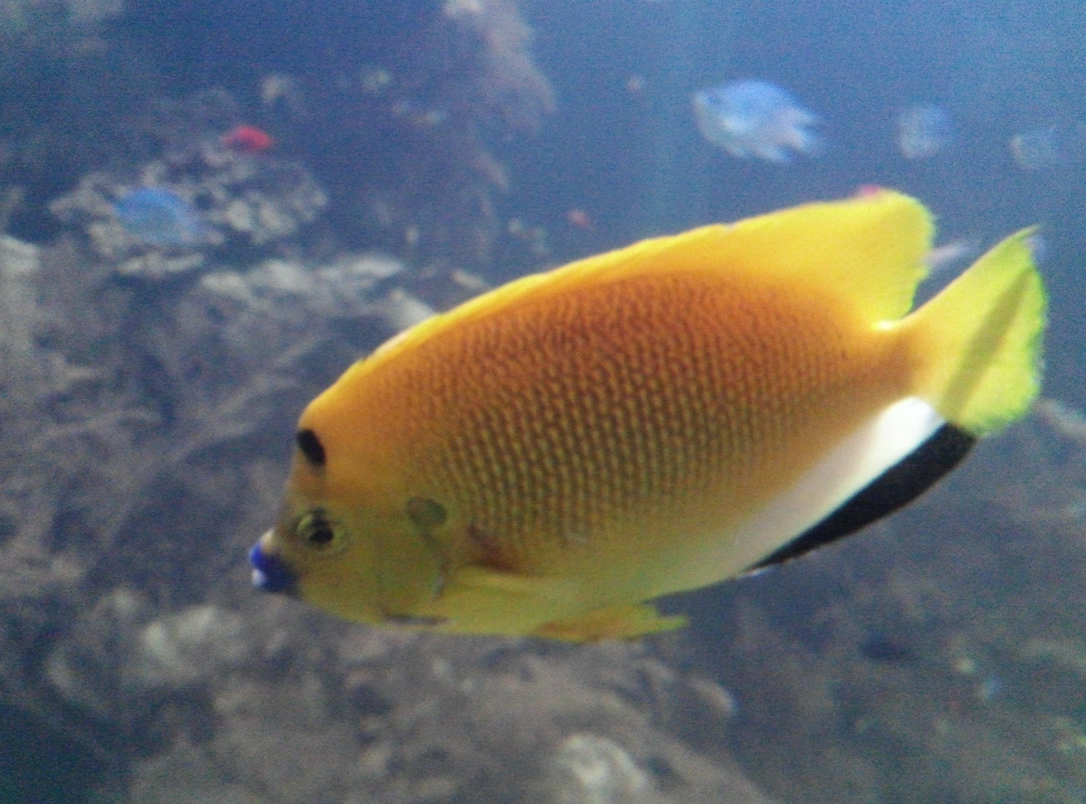 Thuỷ cung Đầm Sen 2013